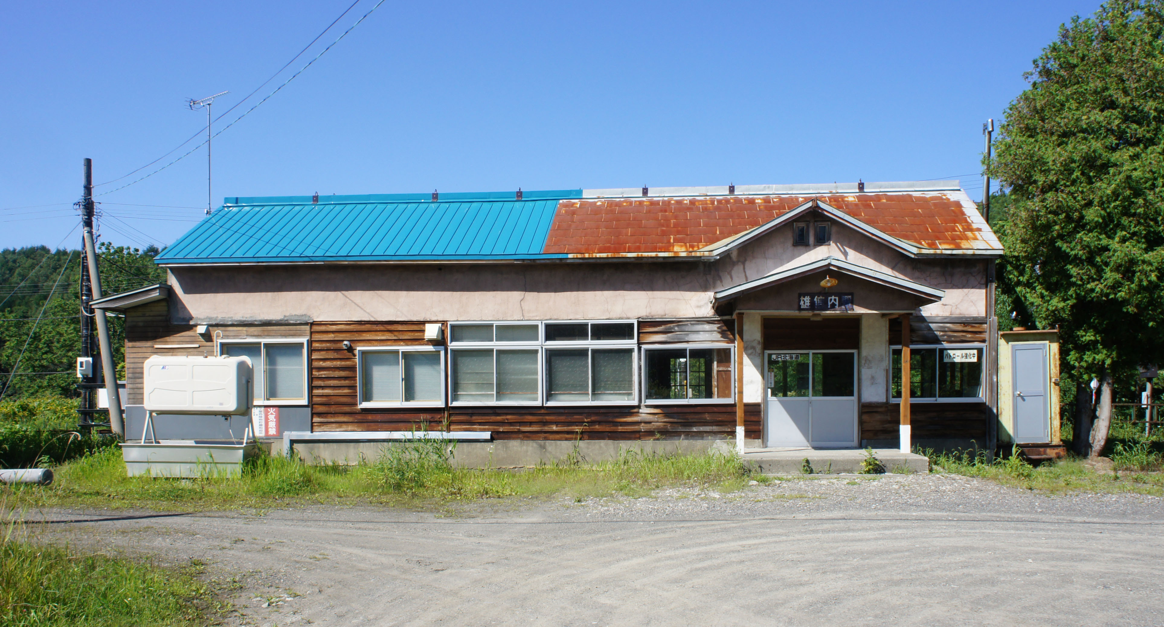 Station building of JR Soya-Main-Line Onoppunai Station